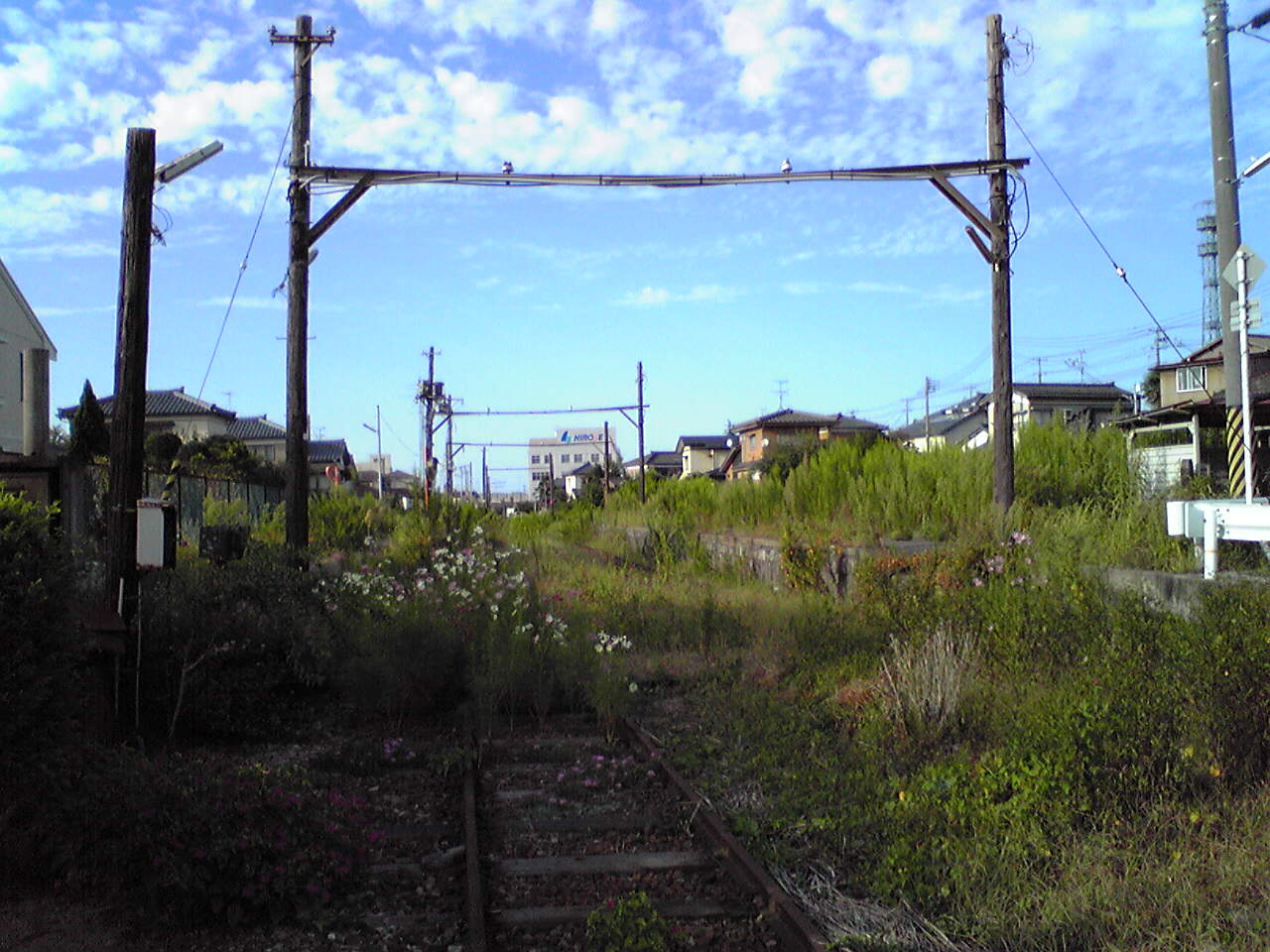 The remains of Echigo-ono Station, Niigata Kotsu Railway which became the abolished line on April 5, 1999. This station became the abandoned station on April 5, 1999.